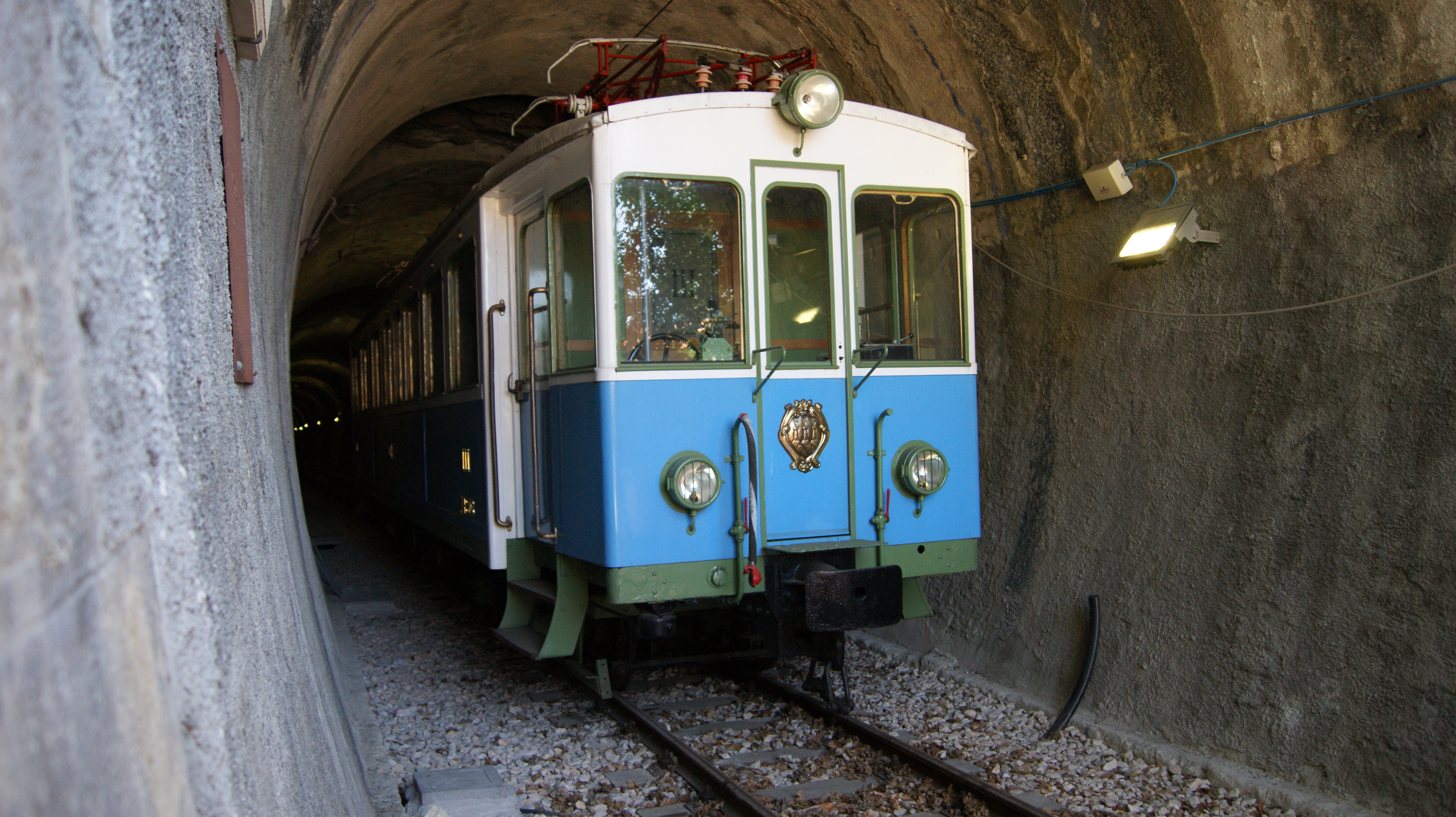 Train of the former narrow-gauge railway to San Marino, exhibited in the Montale tunnel.